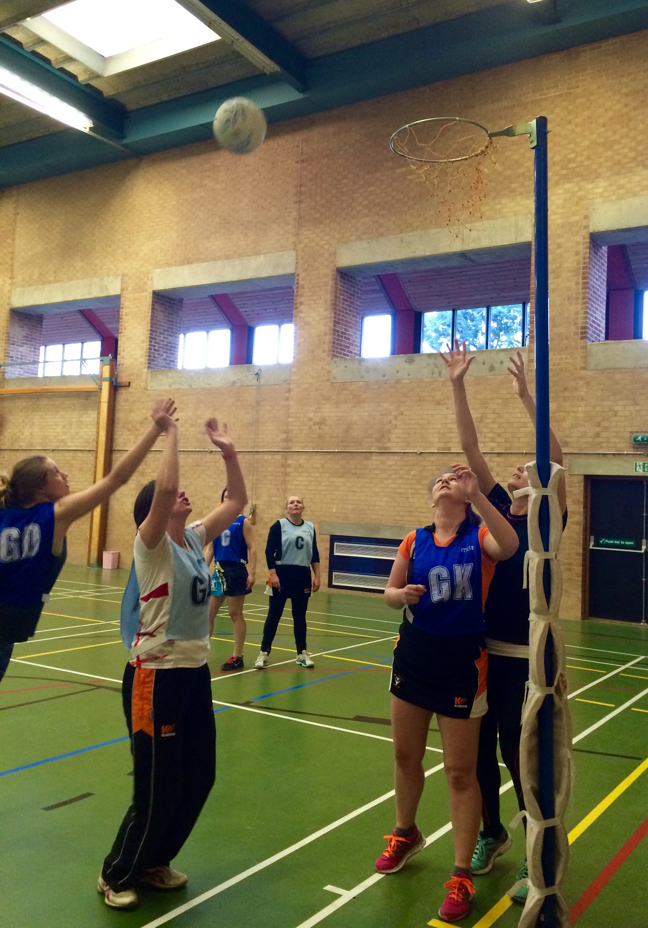 Abbots Bromley seniors train every Wednesday